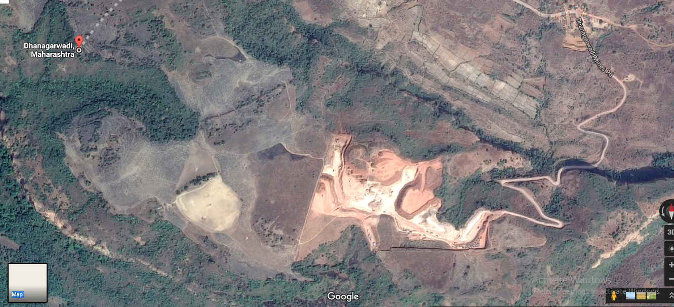 Bauxite mine in Dhanagarwadi, Dist. Kolhapur, India